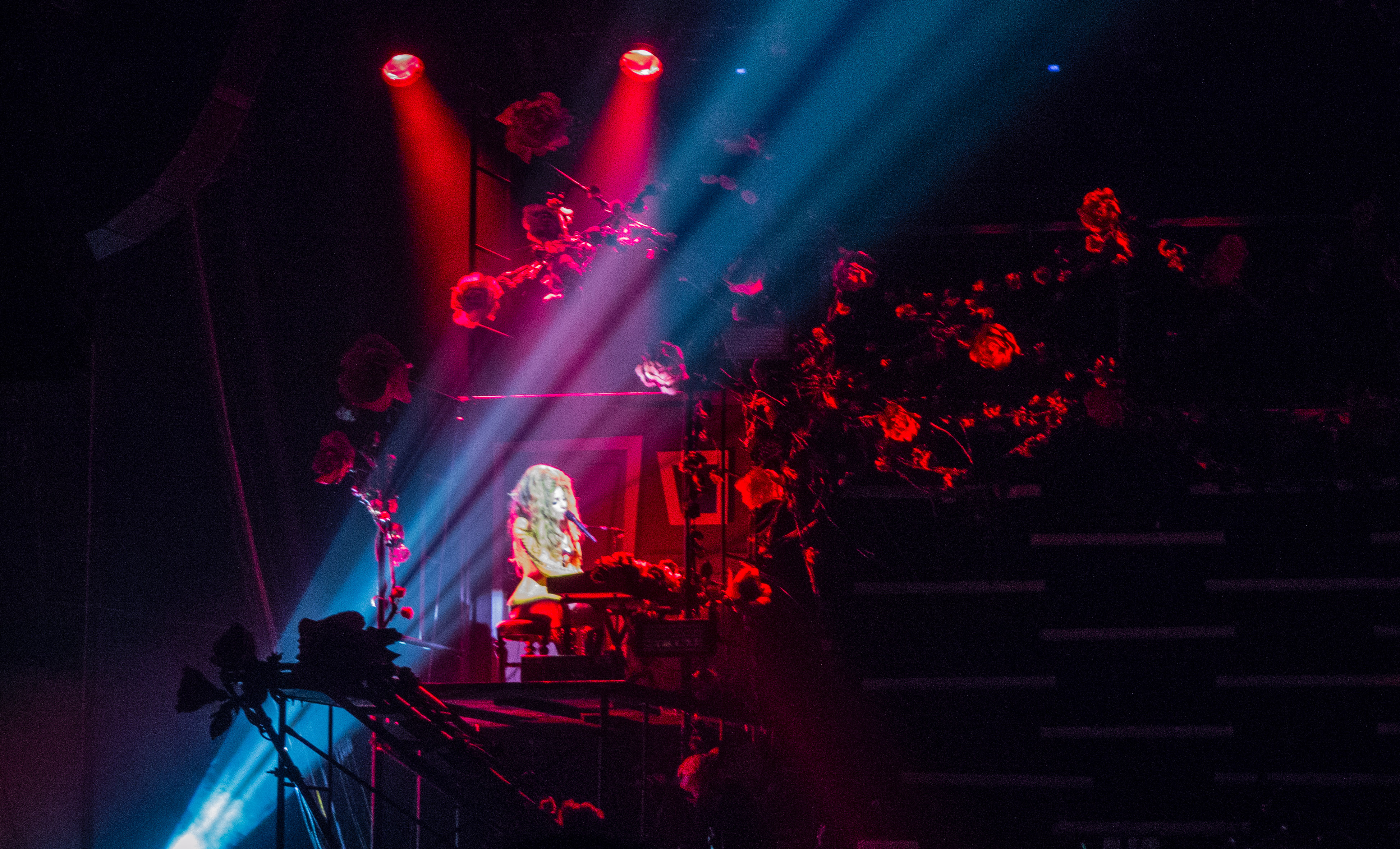 Lady Gaga performing "Born This Way" at Roseland Ballroom.